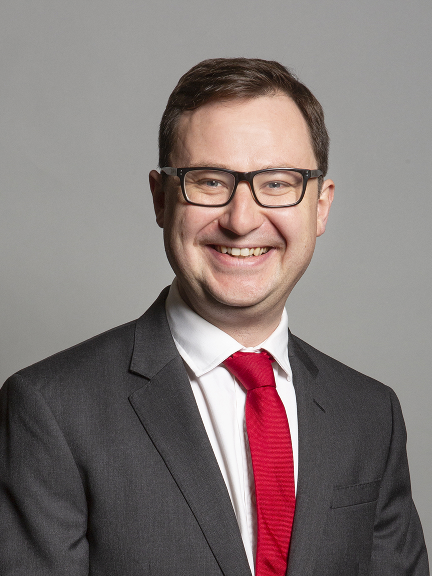 Official portrait of Alex Norris MP 3×4 portrait of Alex Norris